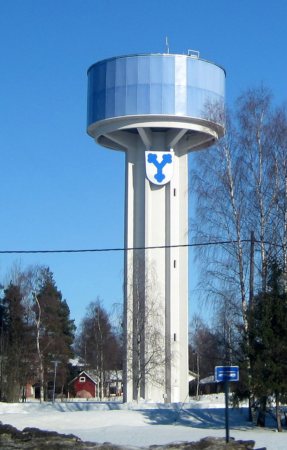 The Ylivieska water tower has been built in 1962.